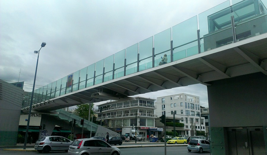 psychiko